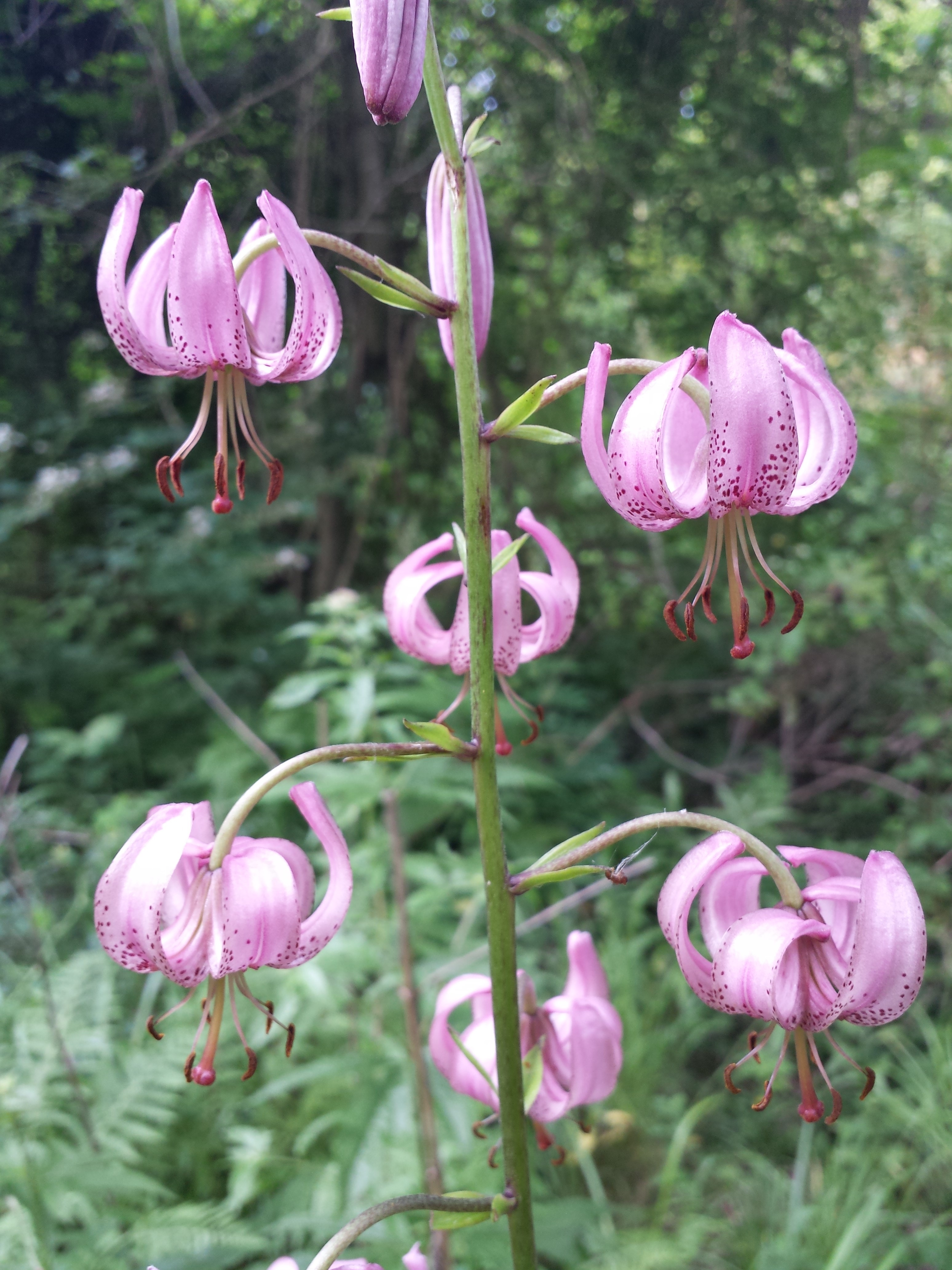 Florescence Taxon: Lilium martagon (sensu Fischer et al. EfÖLS 2008 ISBN 978-3-85474-187-9) Location: Rohrwald, district Korneuburg, Lower Austria - ca. 300 m a.s.l. Habitat: hardwood forest